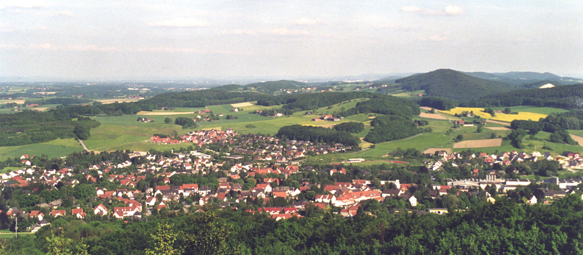 Photo shows the view of the town of Borgholzhausen from the Luisenturm. Taken in the summer of 2002.